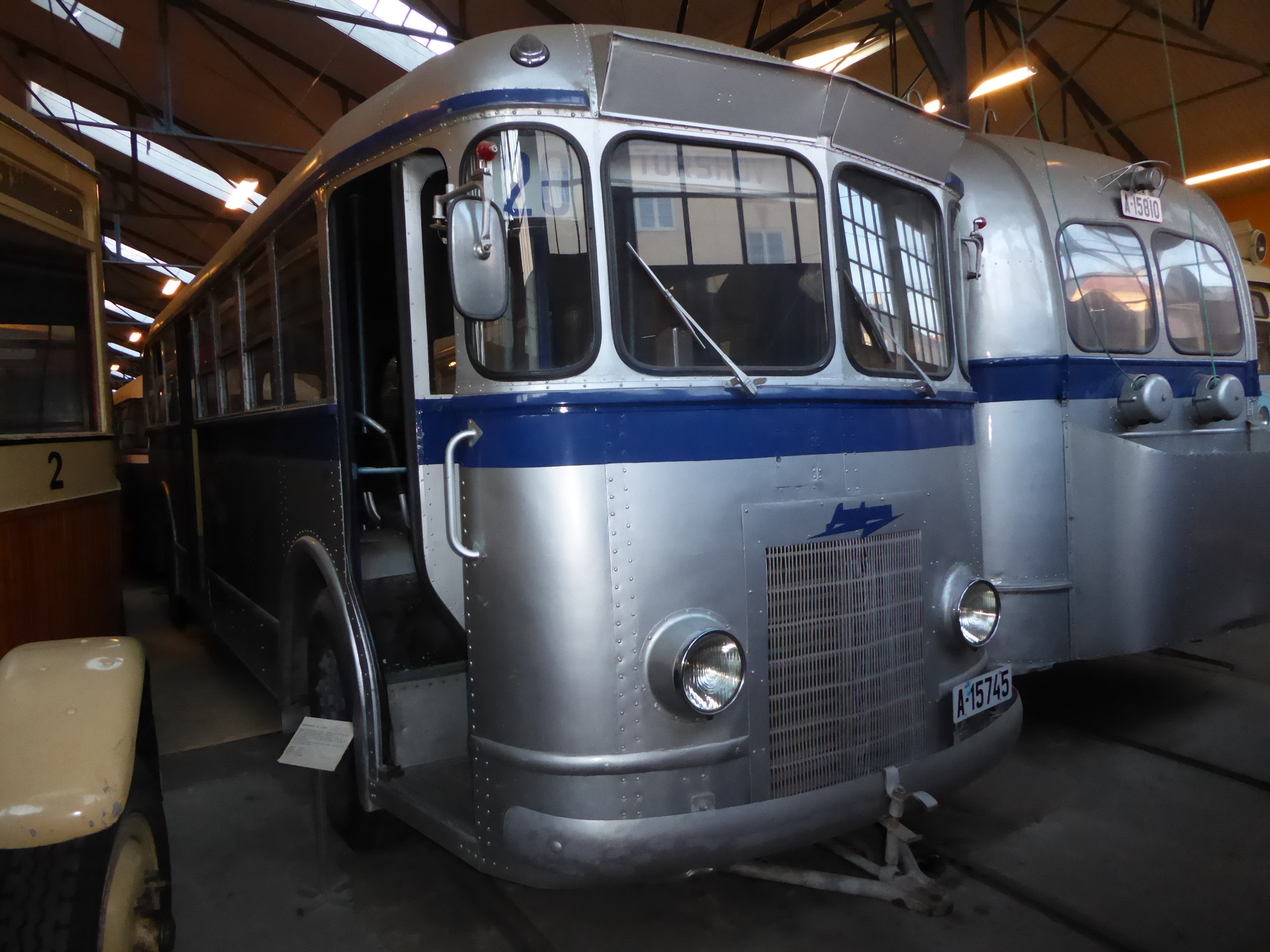 The bus OS 745 of Oslo Sporveier from 1939 at Sporveismuseet in Oslo.